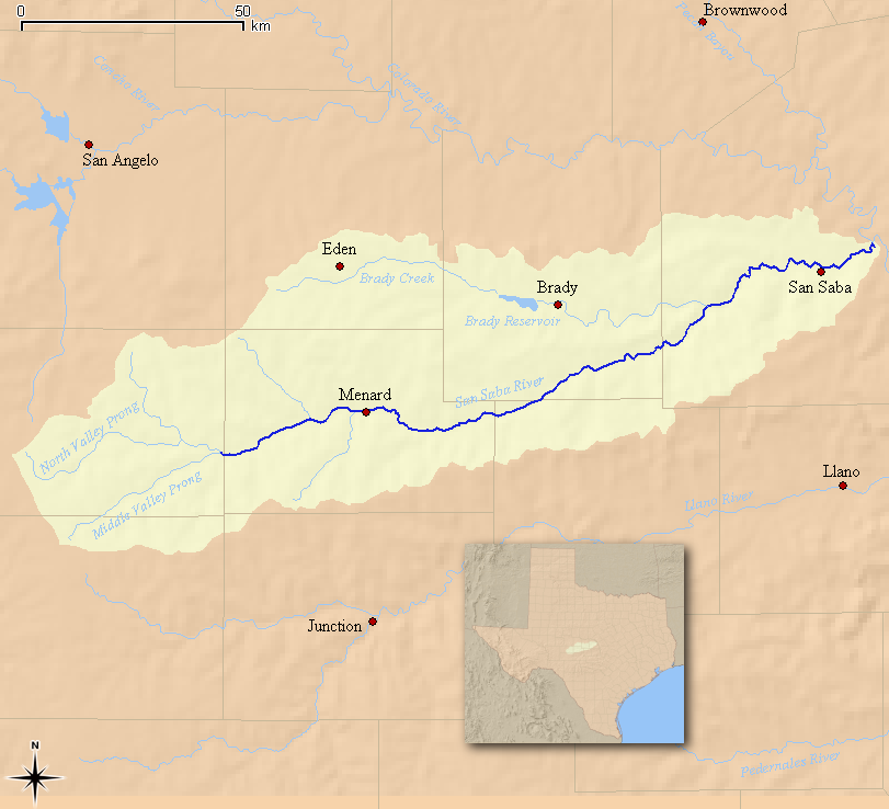 This is a map of the San Saba River watershed in Texas. I, Kuru, created from data originating at the USGS.